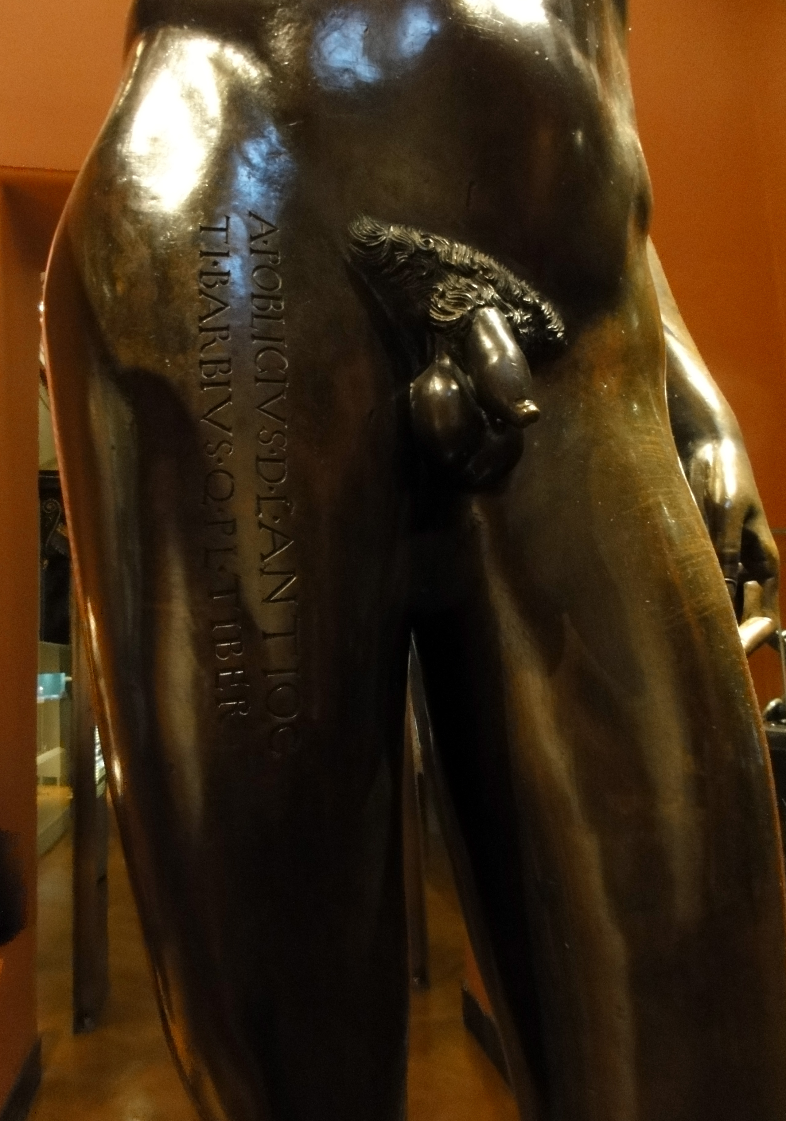 Lifesize bronze statue at the entrance to the collection of Greek and Roman Antiquities, Kunsthistorisches Museum. The inscription on the figure's right thigh names the two donors of the statue: A[ulus] Poblicius D[ecimi] l[ibertus] Antio[cus] and Ti[berius] Barbius Q[uinti] P[ublii] l[ibertus] Tiber[inus or -ianus].